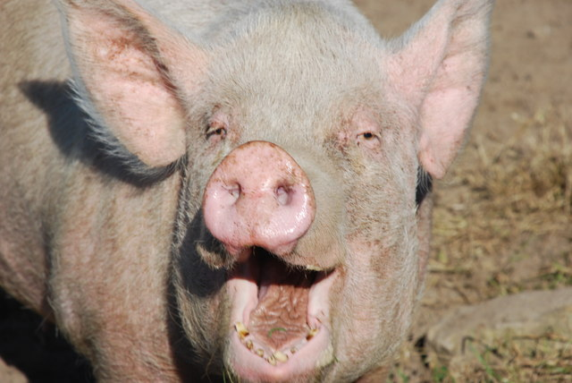 Mochyn Hapus - A Happy Pig One of the Pwllheli pigs.